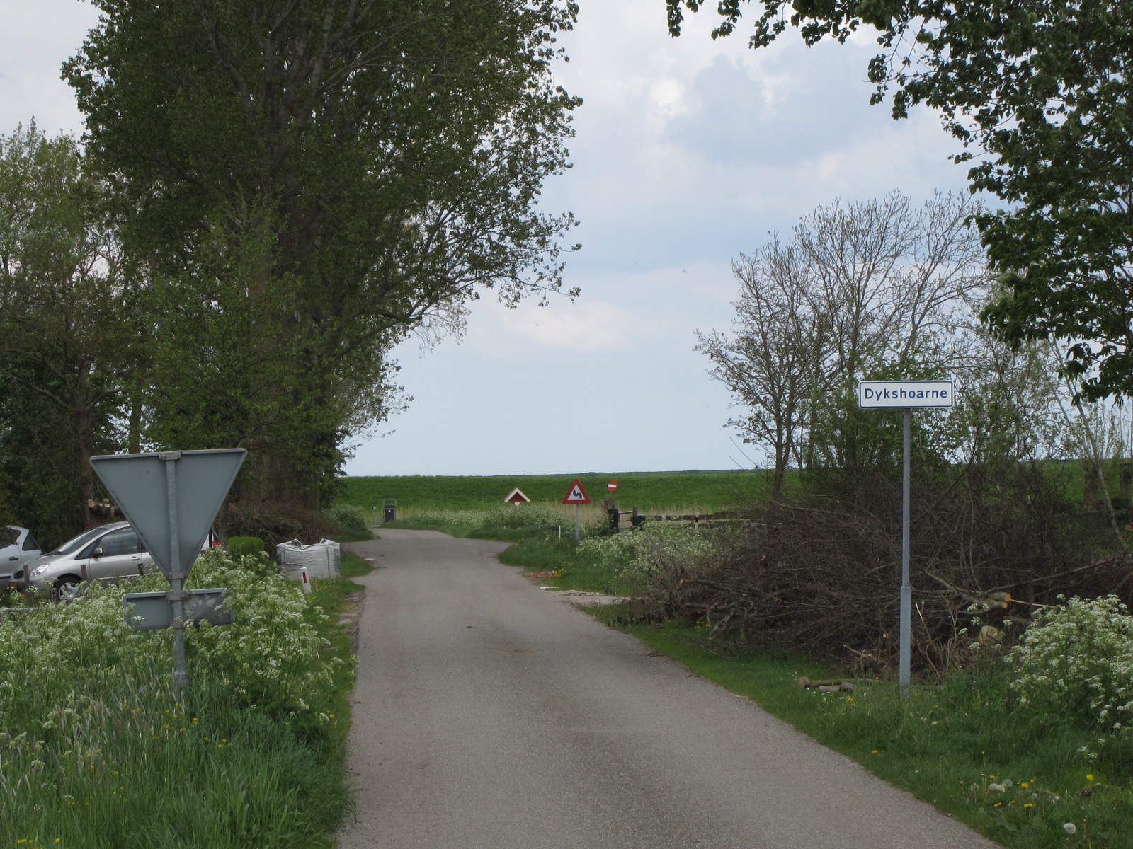 Hamlet Dijkshorne, county Friesland (municipality: Dongeradeel), The Netherlands.